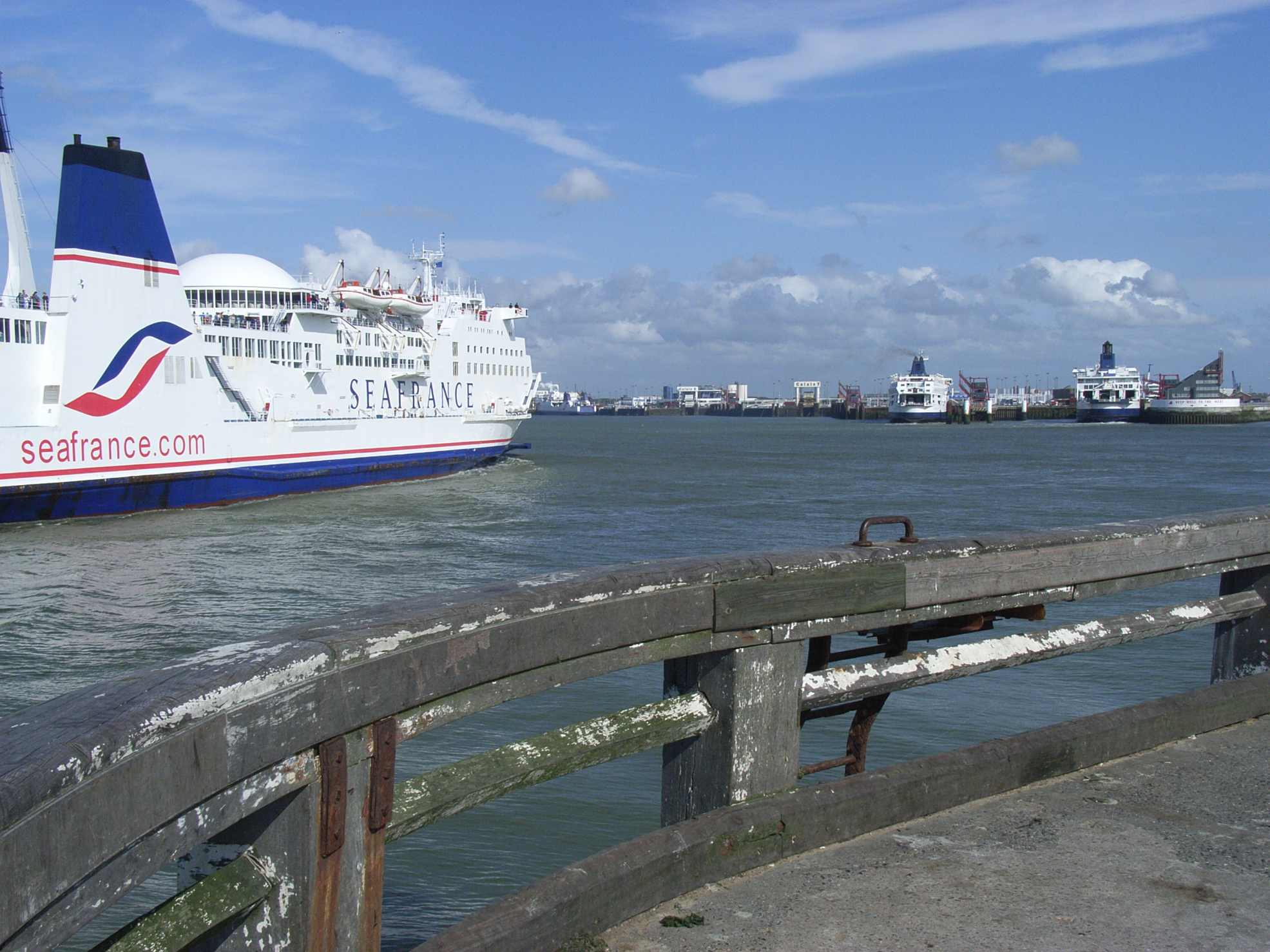 Ferry SeaFrance Cezanne - Harbour of Calais, Port de Calais, Hafen von Calais IMO Number: 7806099 MMSI Number: 227010200 Callsign: FNBK Length: 163 m Beam: 28 m